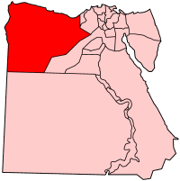 Map of Egypt showing Matruh governorate. Made by User:Golbez based on PD maps.